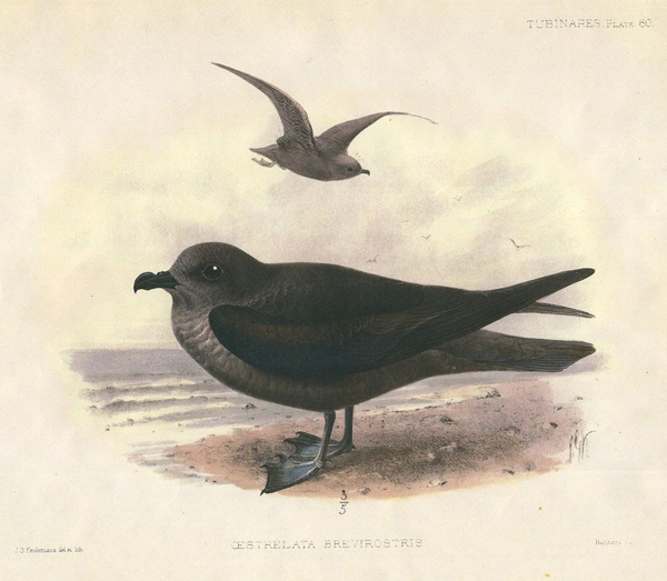 Plate 60 from fasc. 4 of 'Monograph of the Petrels' by F. Du Cane Godman.